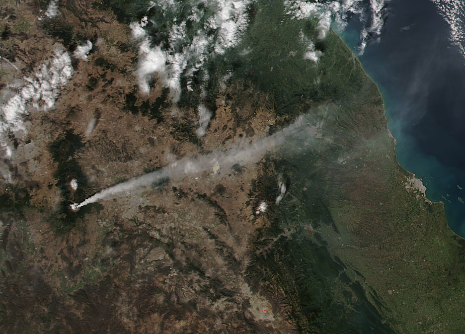 The Visible Infrared Imaging Radiometer Suite (VIIRS) on the Suomi NPP satellite captured this view of Popocatépetl at 1:30 p.m. local time (19:30 Universal Time) on January 25, 2016.